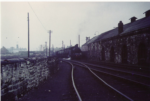 Coal train at Philadelphia. A heavy load of Durham coal is hauled slowly past Philadelphia NCB loco sheds.